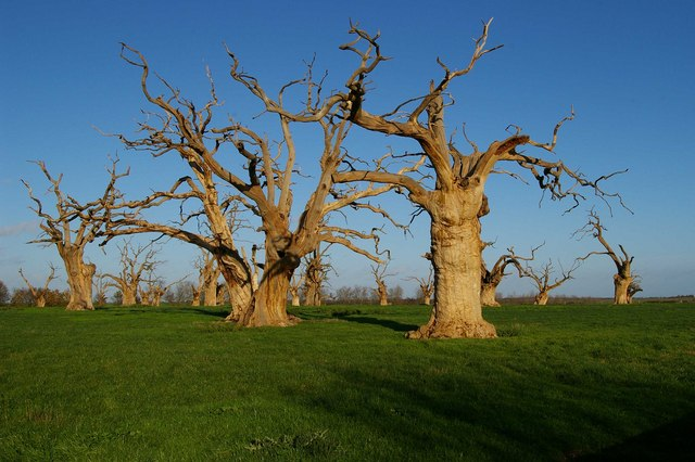 Terminus for Trees One can only speculate what has killed a whole meadow full of trees near Mundon Hall. A quick google reveals these oaks were mentioned in the Domesday Book, their twisted trunks saved them from the shipwrights of previous centuries.